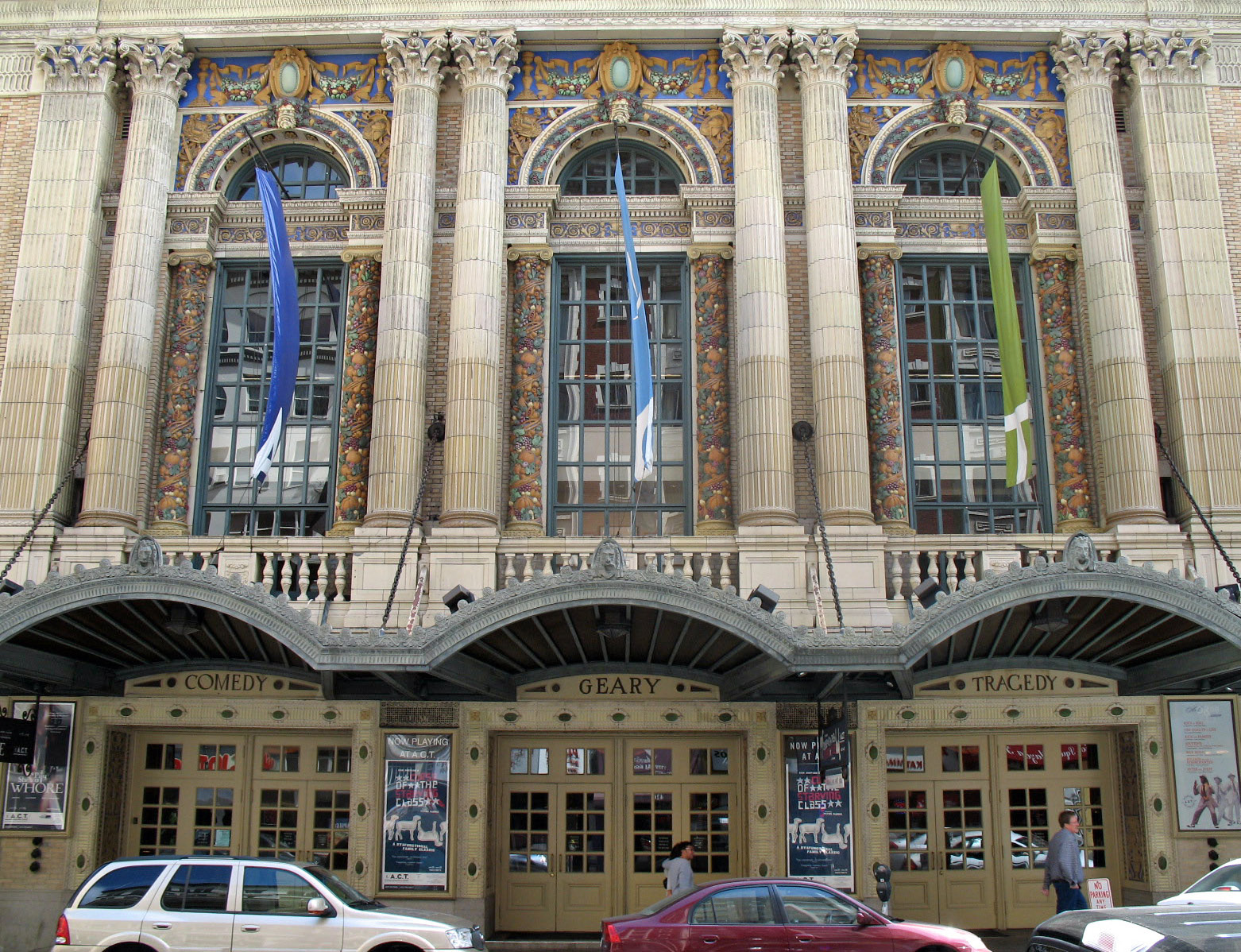 National Register of Historic Places in San Francisco, California. Geary Theatre, 415 Geary Ave, San Francisco, California, USA. Photographed 2008-05-04 by Mike Hofmann from the north side of Geary Blvd between Taylor and Mason Sts.